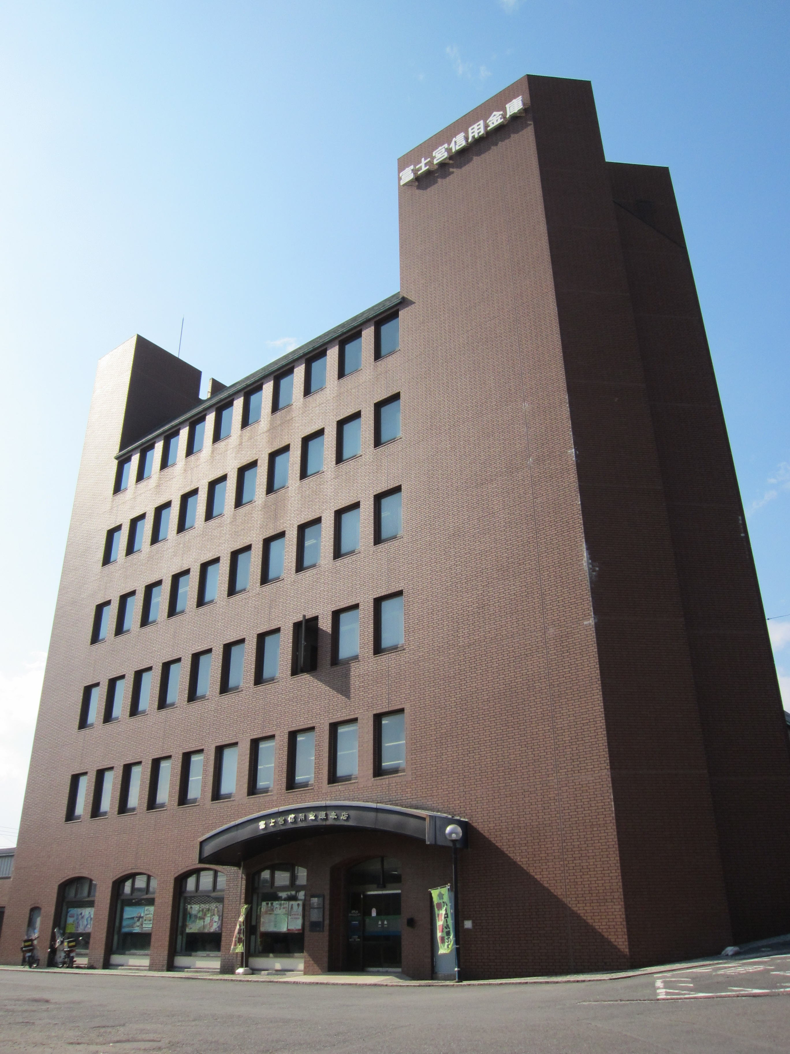 Fujinomiya Shinkin Bank